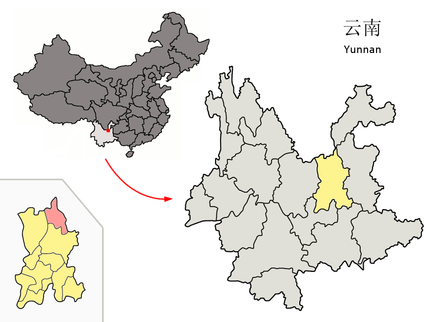 Location of Dongchuan District (pink) and Kunming prefecture (yellow) within Yunnan province of China Map drawn in september 2007 using various sources, mainly : Yunnan province administrative regions GIS data: 1:1M, County level, 1990 Yunnan Counties map from Yunnan Province map from